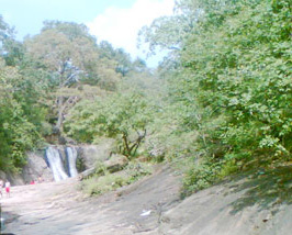 I have taken this picture when I visited along with my weavers colony pictures.